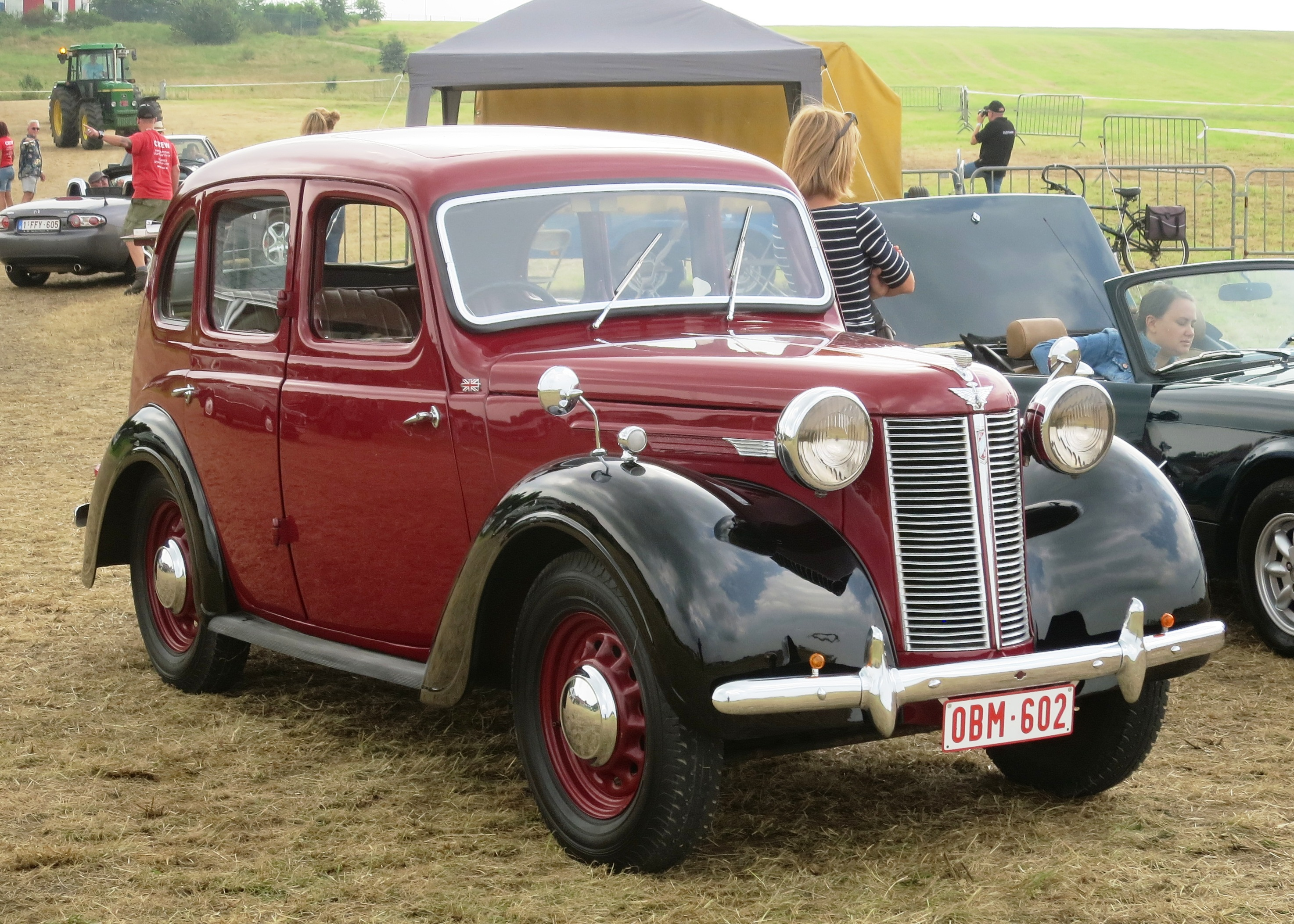 Austin Ten in Belgium